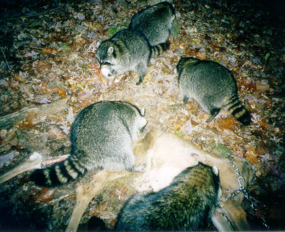 Identifying Animals at Risk from CWD. A raccoon family feeds on a deer carcass staked out by researchers at the University of Wisconsin, in a study aimed at determining which species could be at risk of contracting CWD.